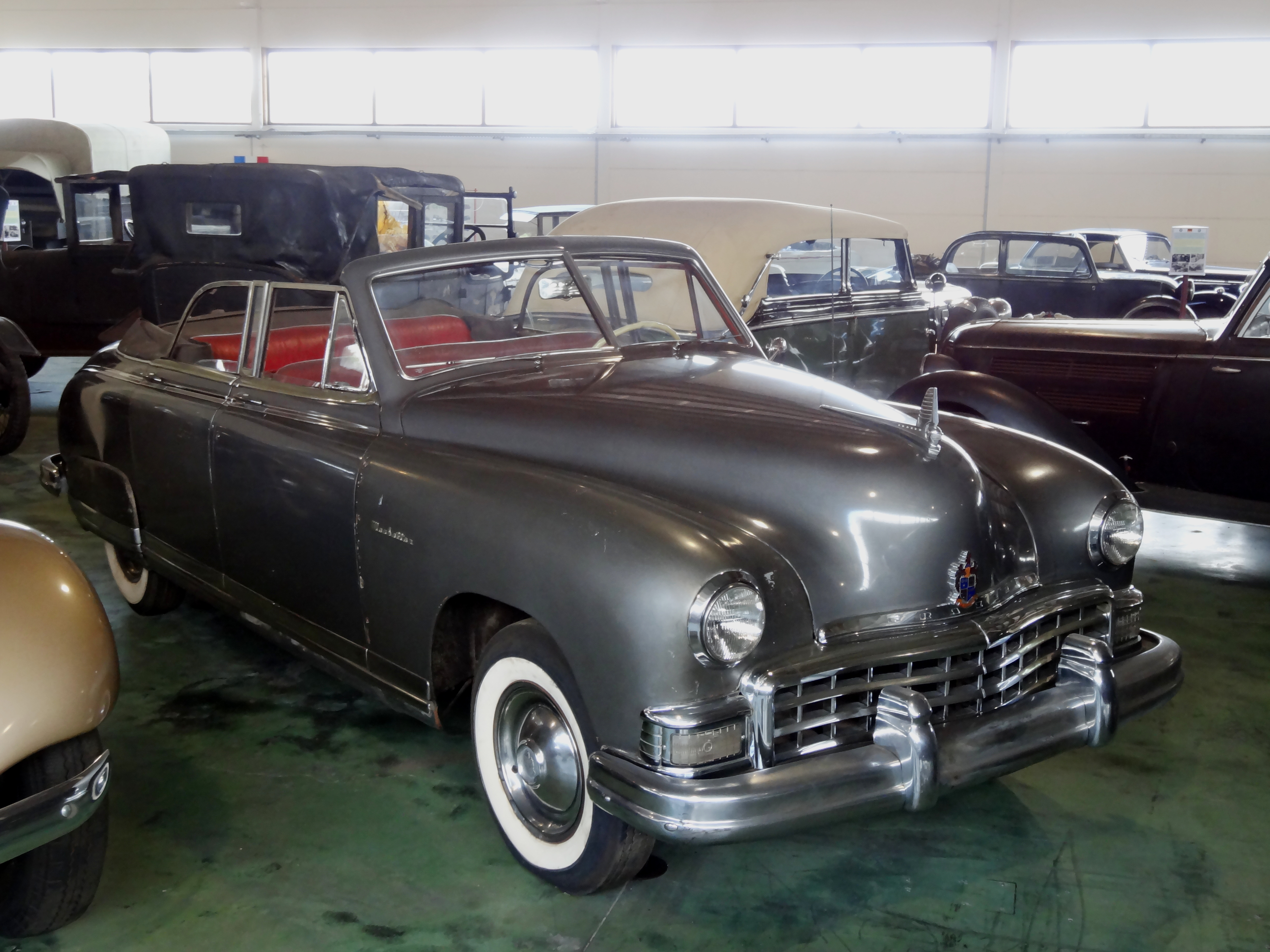 Frazer 4 doors convertible, 1949, Mahymobiles, Leuze, Belgium